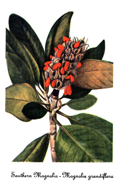 Watercolor painting of Magnolia_grandiflora.